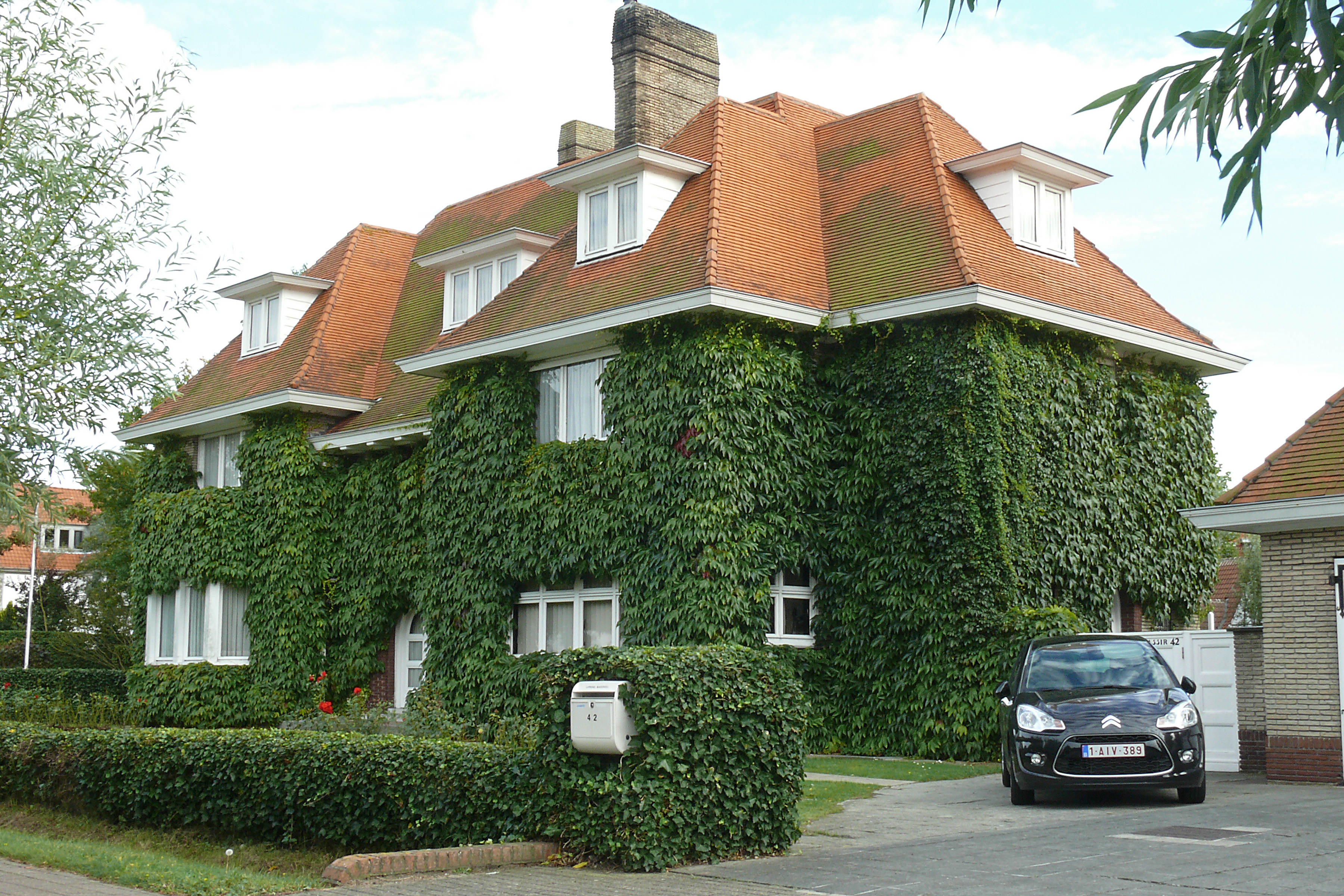 Parthenocissus tricuspidata growing on the building, Hedera helix on letter box and hedgerow